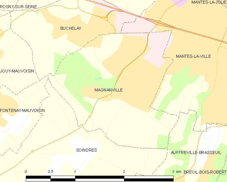 Map of French municipality Magnanville